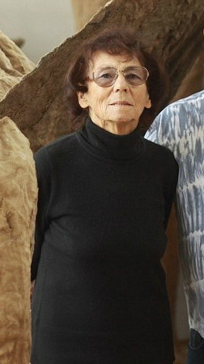 Magdalena Abakanowicz, a sculptor from Poland. A photo by Jarosław Pijarowski.